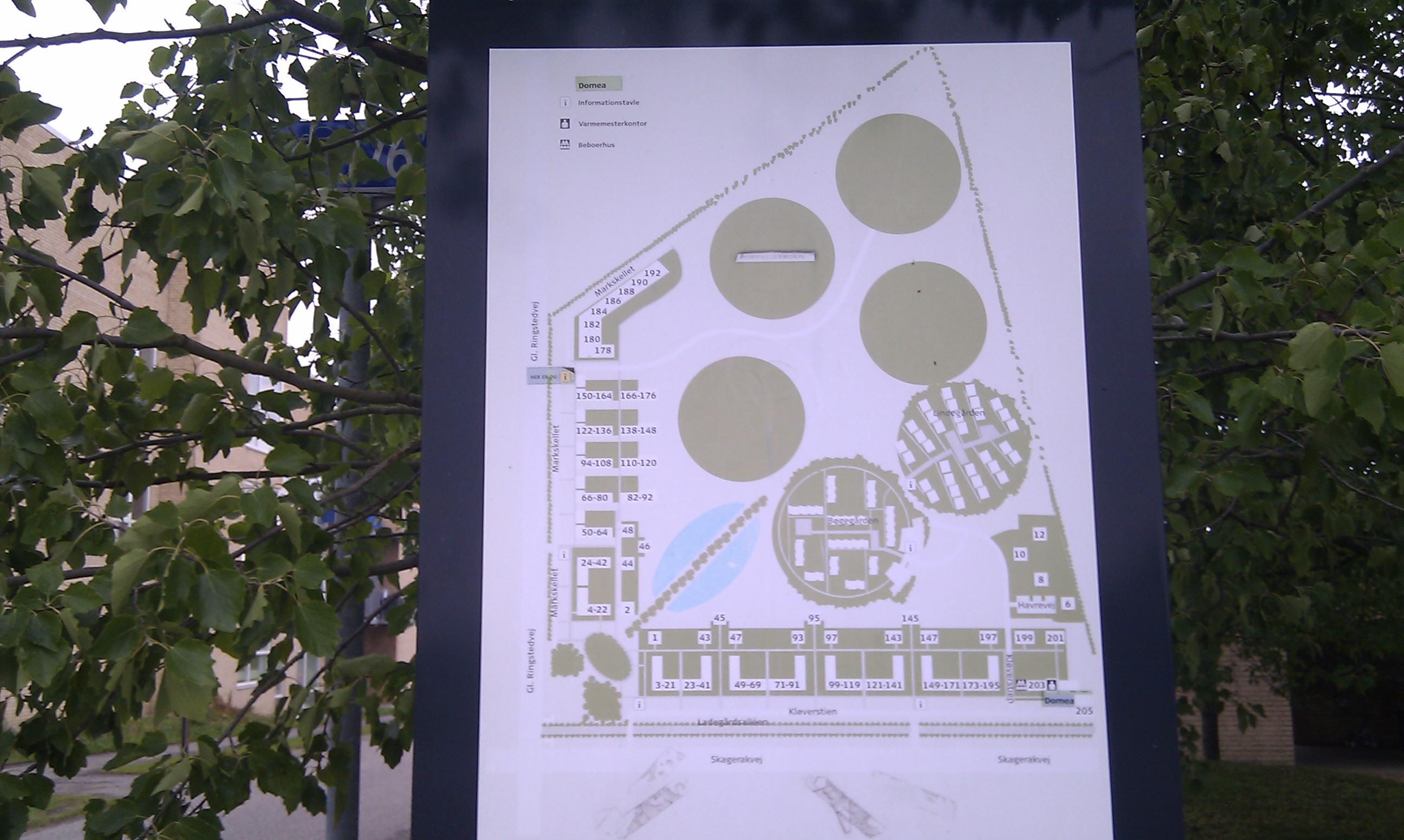 Map of the district Bernts Have in Holbæk, Denmark